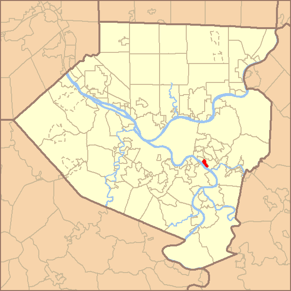 Map highlighting the municipality within Allegheny County, Pennsylvania.